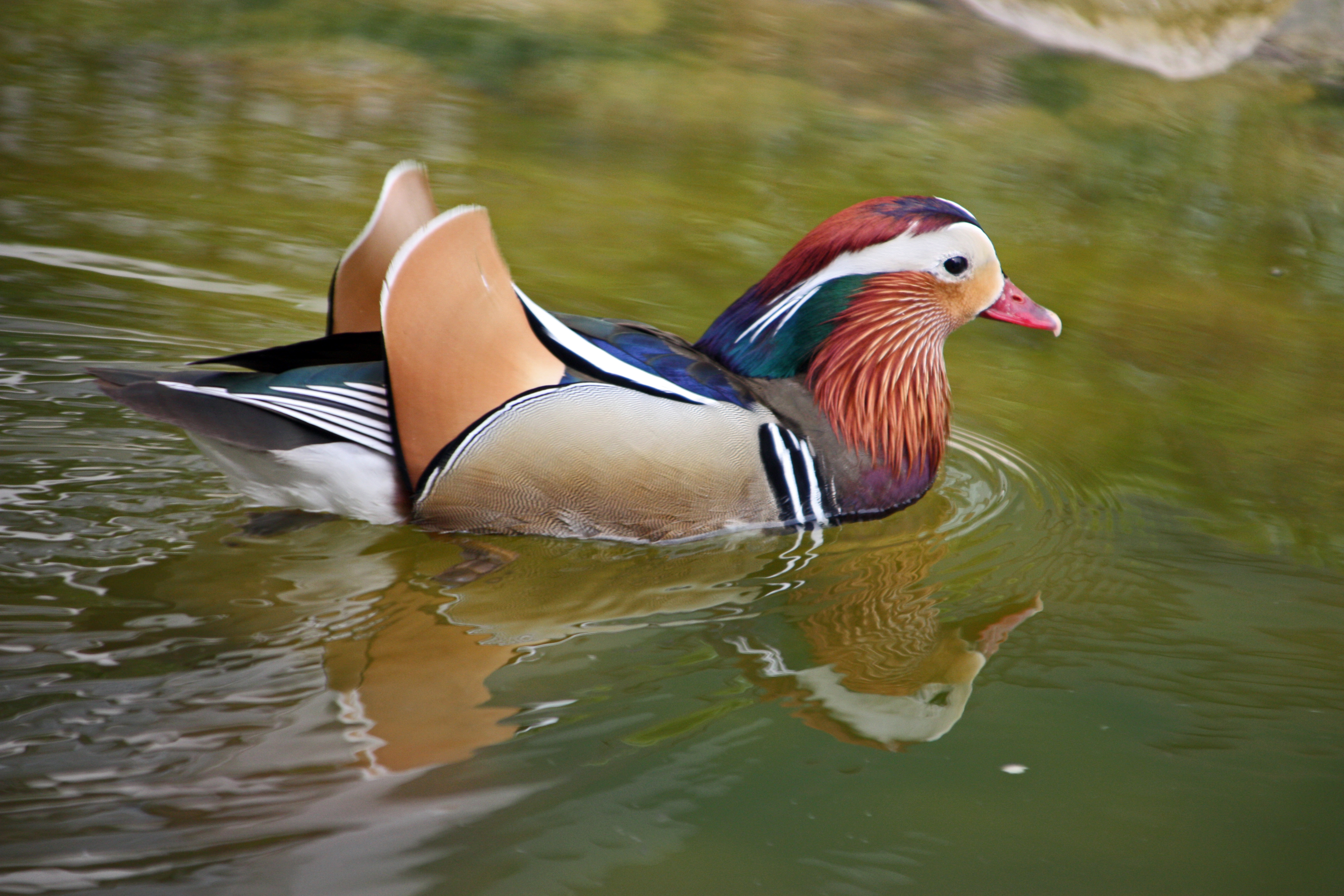 Mandarin Duck (Aix galericulata), photo taken in Stara Iwiczna, Poland